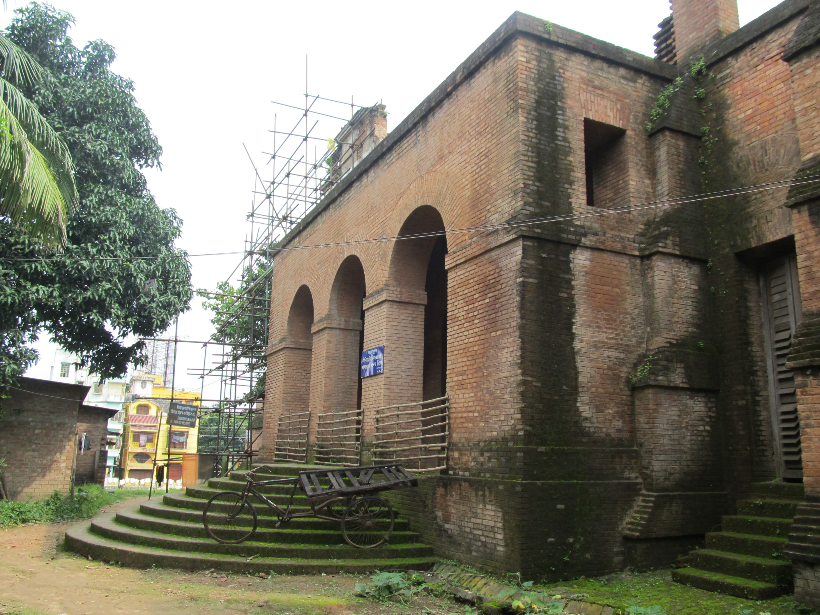 Clive's House at Dum Dum,localy known as Barakothi